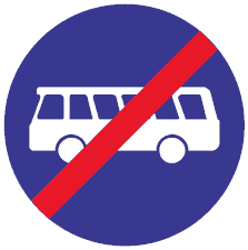 Luxembourg road sign diagram